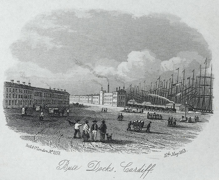 A view of large ships at the quay side in Bute Docks, Cardiff. On one side a steam train is passing through and in the foreground there are numerous people, some dragging a cart, others with drums.